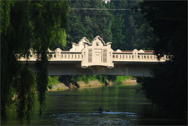 Ligeti Bridge Temesvár